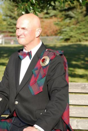 This is how the fly plaid should look when correctly worn.